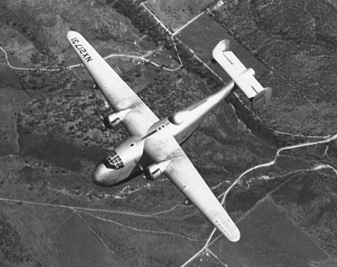 The protoype of the consolidated XP4Y-1 Corregidor in flight. It first flew on 5 May 1939. The plane still carries the civil registration "NX21731".